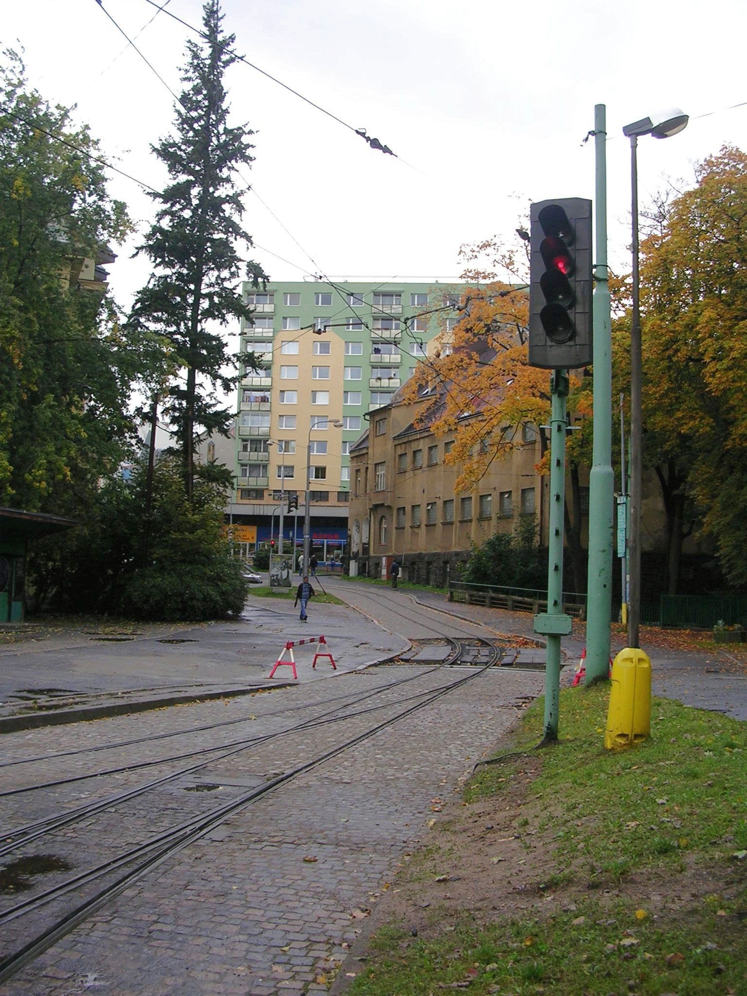 Tramway line between Liberec and Jablonec, Czech Republic. "Jablonec nad Nisou, Tyršovy sady" endstation.